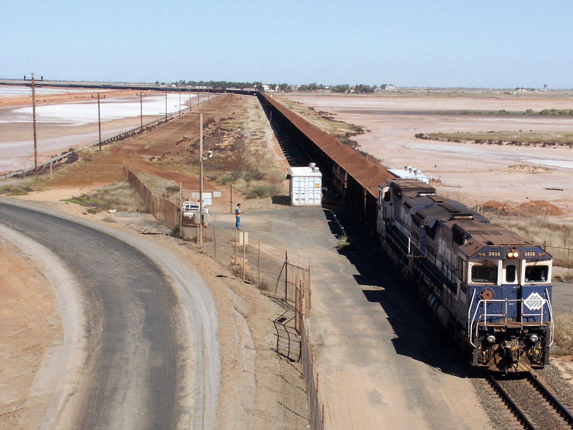 BHPIO iron ore train arriving at Port Hedland, Western Australia. The lead engine is a 1994 rebuilt Alco Century 636 originally built 1972 by A. E. Goodwin in Australia. The rebuild was done by Goninan and used the GE Dash 8 power train. Currently (2015) the locomotive is stored.